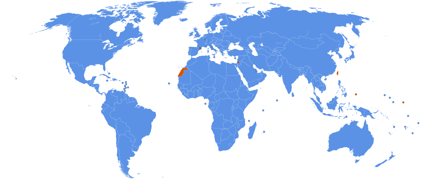 The Universal Postal Union. Current member states Non-members